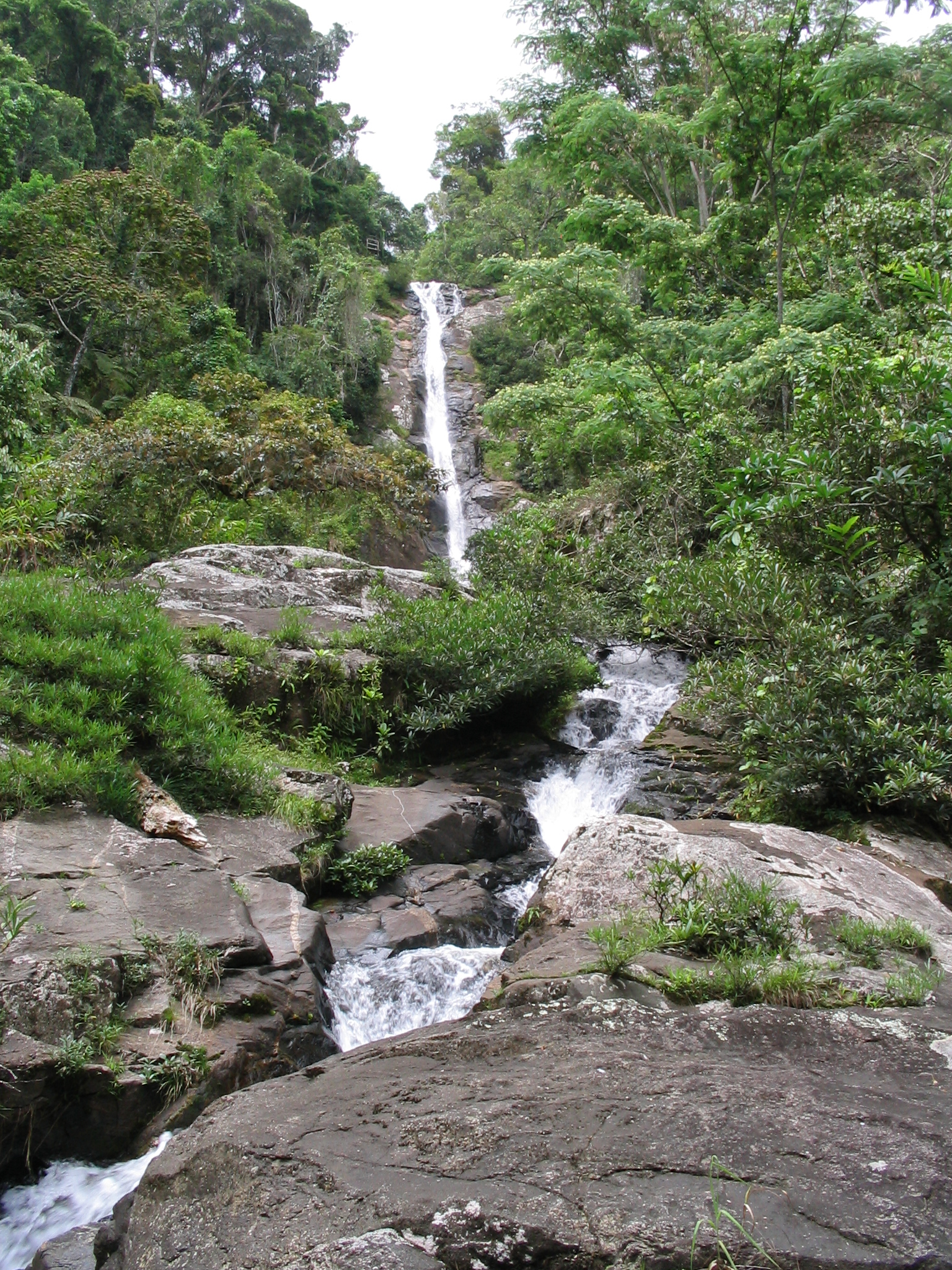 Cascade de Humbert at Marojejy National Park, Madagascar